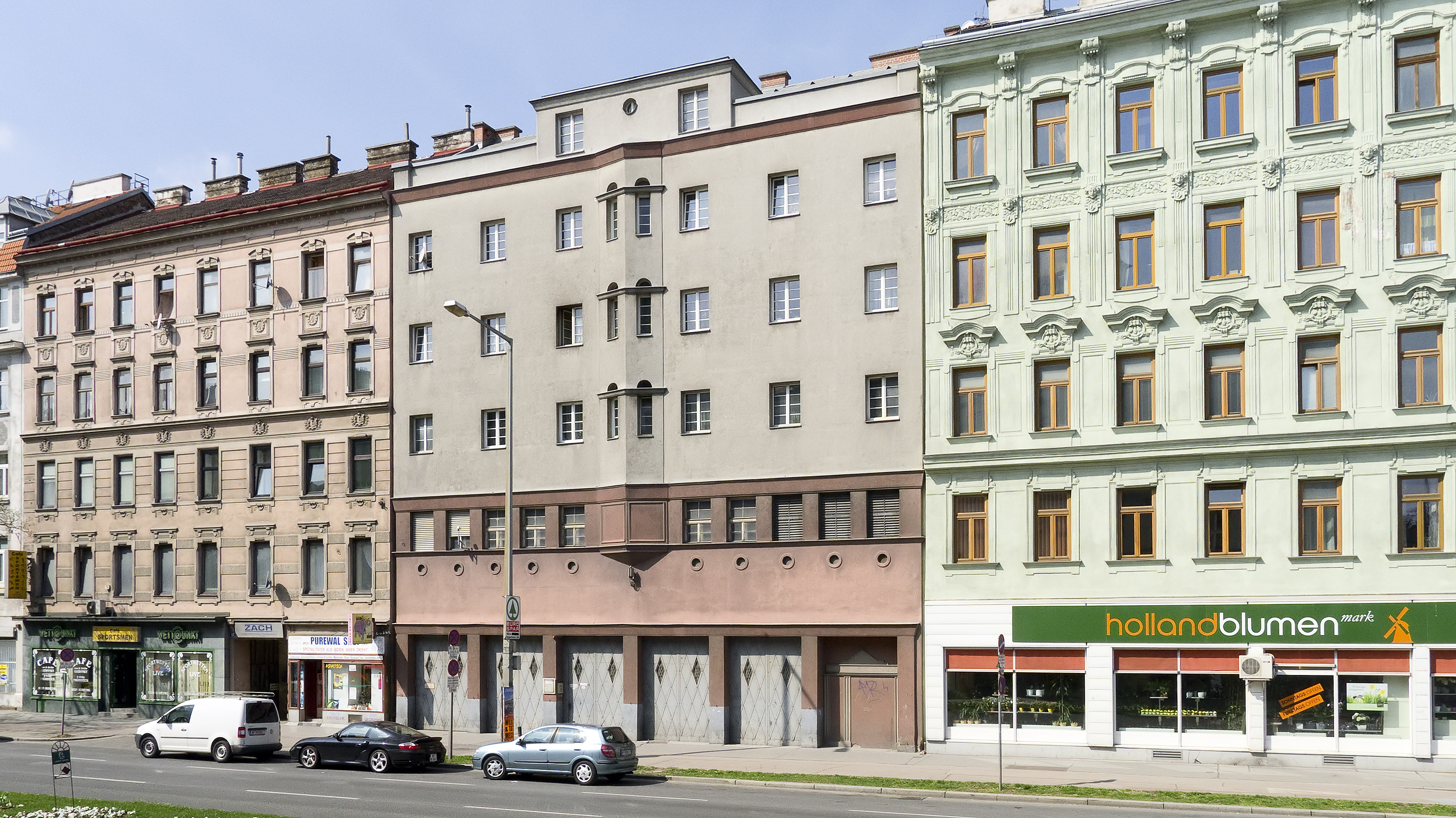 Residential building Lassallestraße 19 in Vienna Leopoldstadt, former fire station